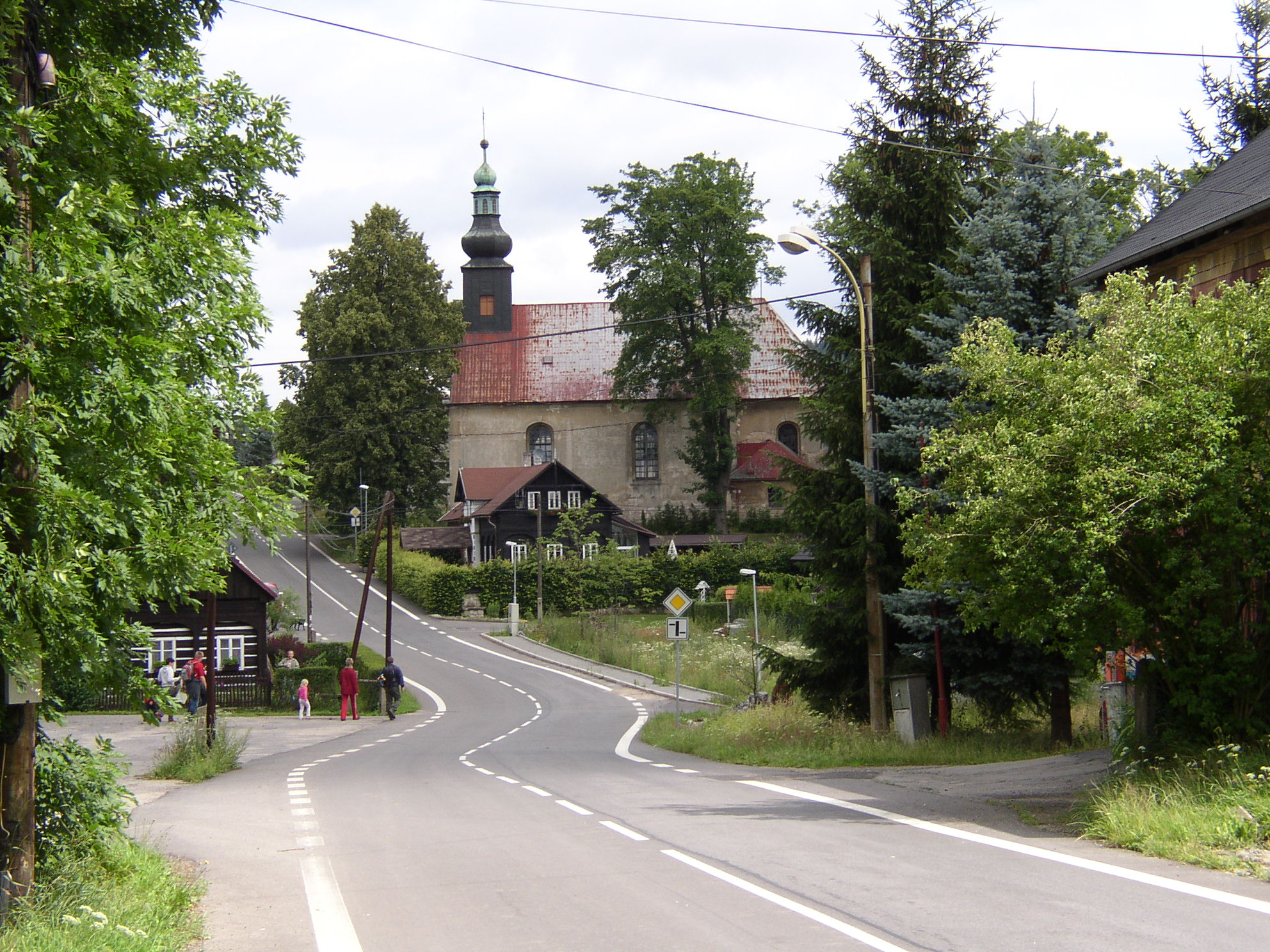 Church of the Holy Trinity in Petrovice (a part of Jablonné v Podještědí town), Czech Republic. A view along the main road towards north.